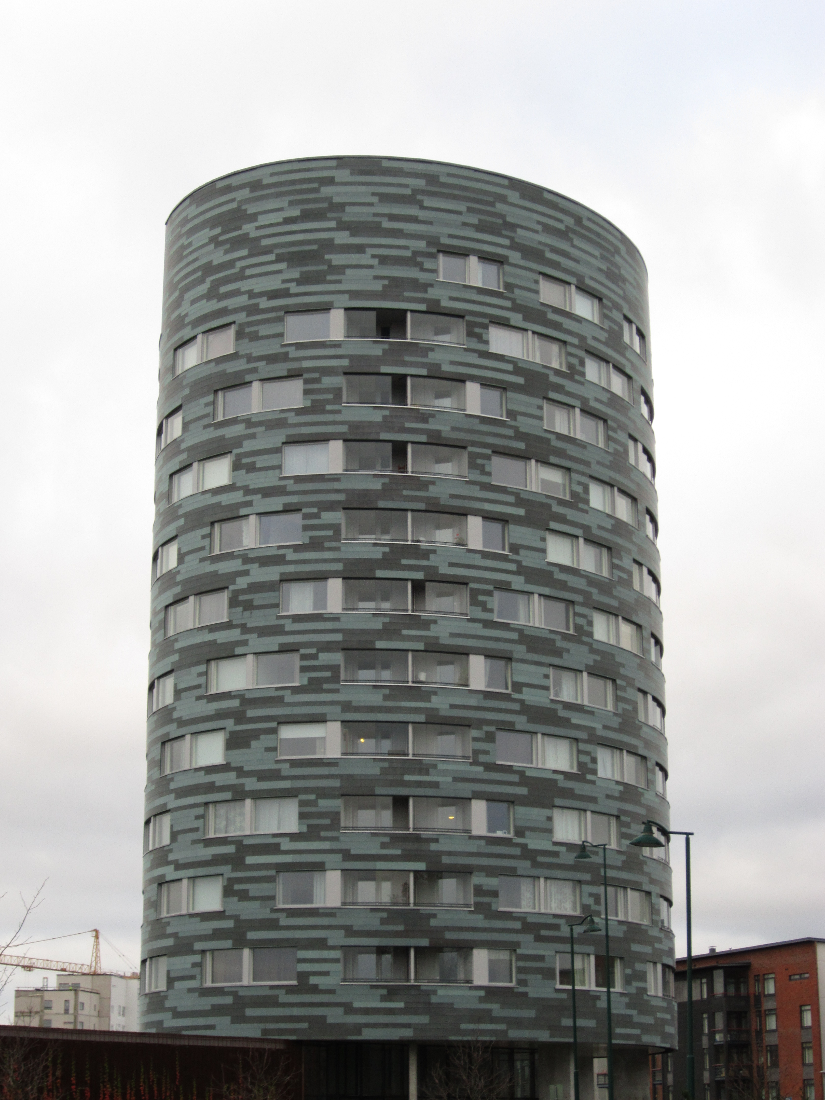 Ikituuri in Turku. Described in the parking area of Sokos Hotel Caribia.